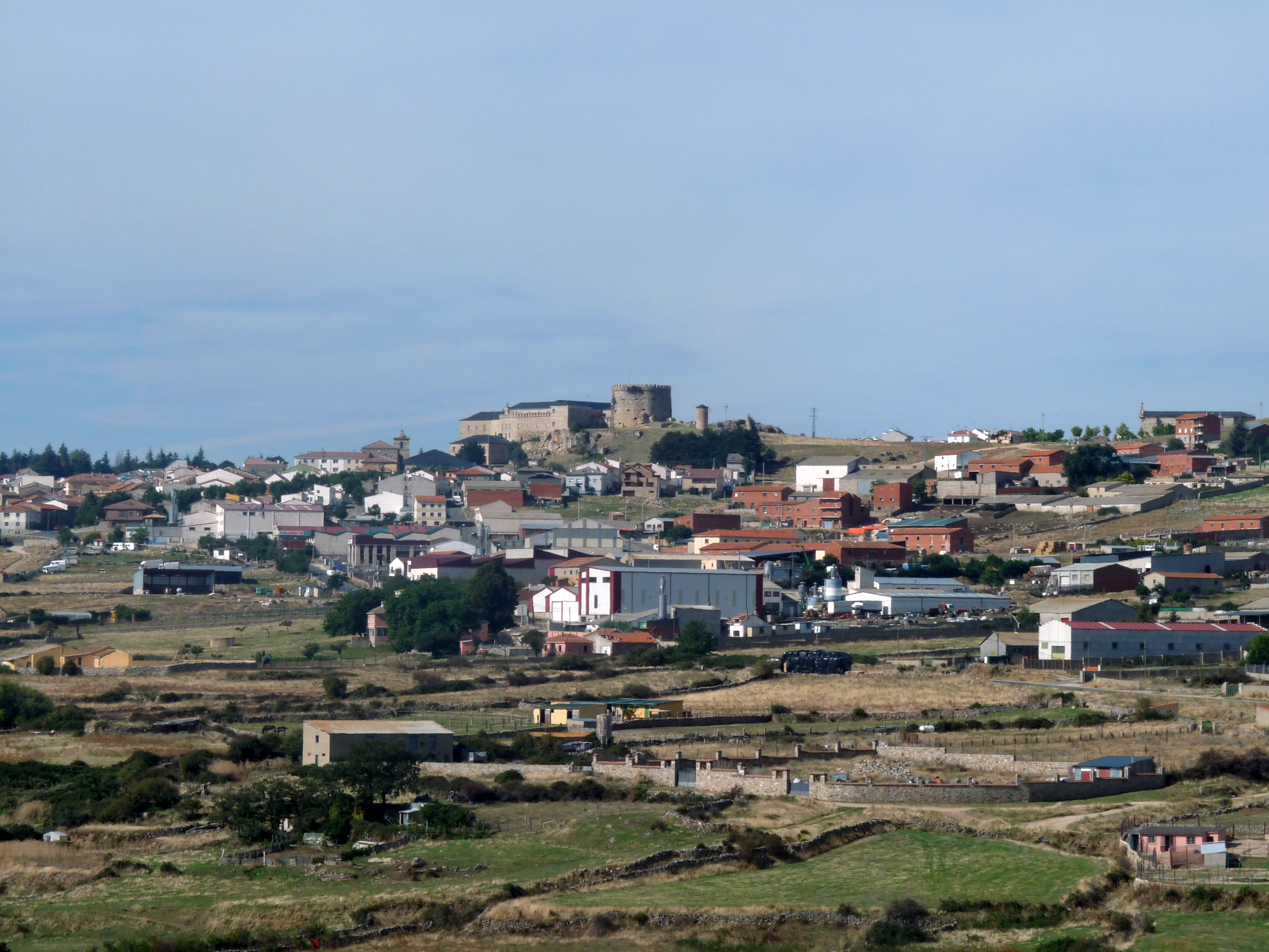 View of Las Navas del Marqués, province of Ávila, Castile and León, Spain.